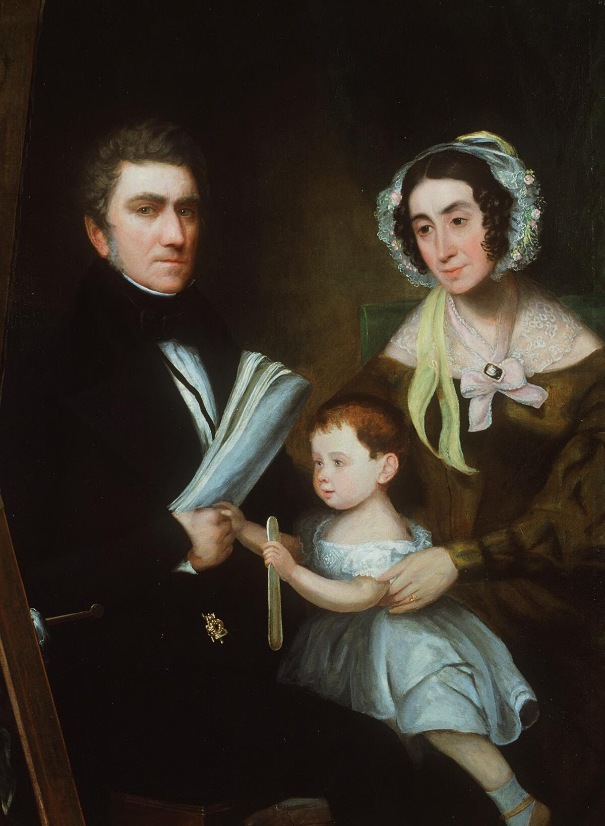 A painting from the Framed Works of Art collection at the National Library of wales.